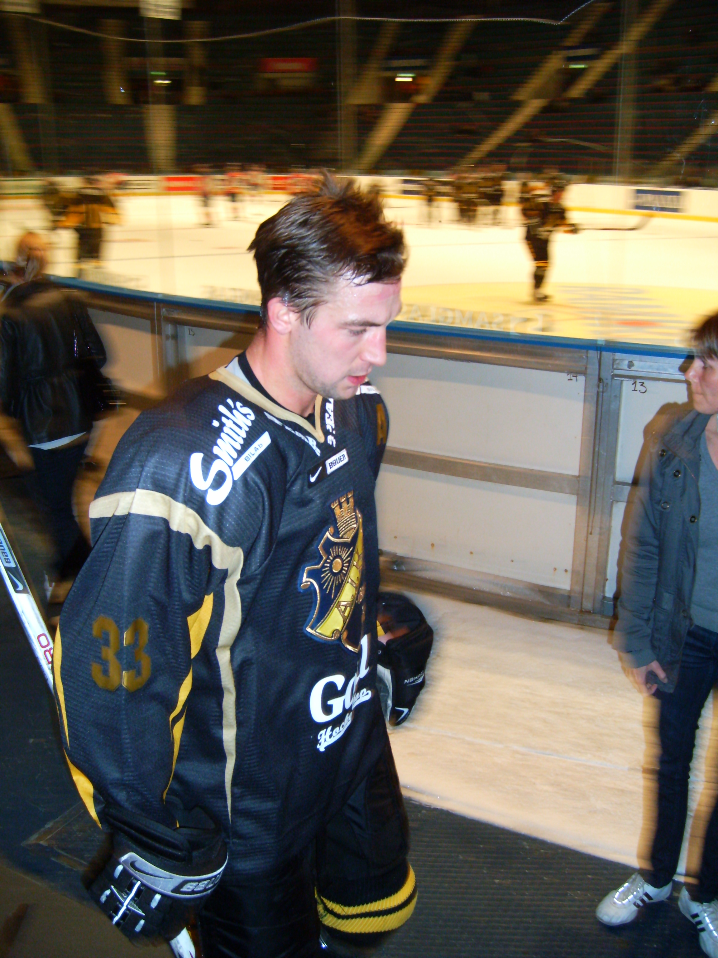 David Enbglom, Swedish ice hockey player.